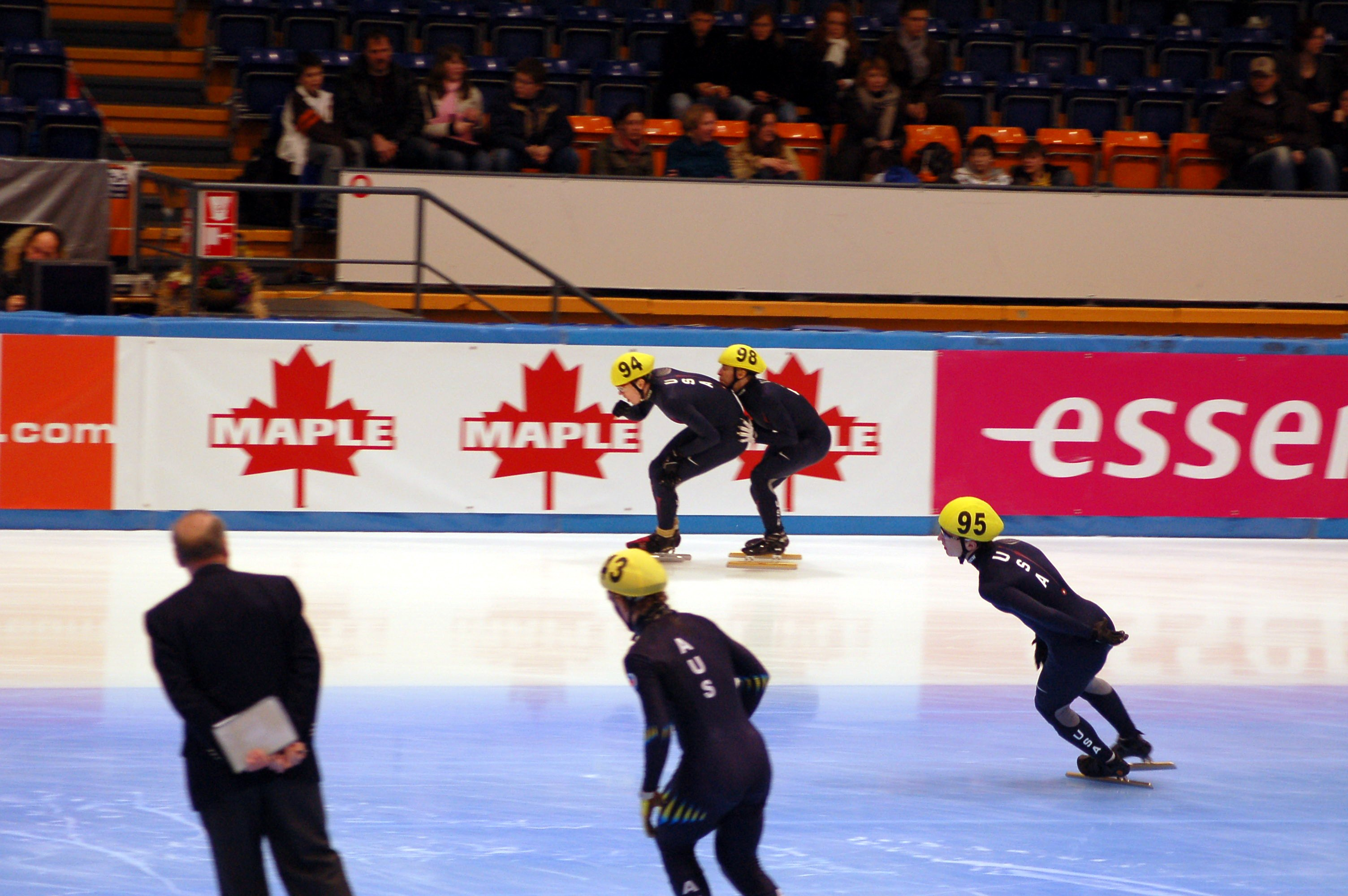 Relay between Ryan Bedford(94) and Jordan Malone (98) during the B-final at the World Cup in Heerenveen (4/2/2007)